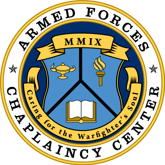 Side one, official emblem, Armed Forces Chaplaincy Center, Ft Jackson, S. Carolina. (The Army, Navy, and Air Force have Chaplaicy Centers co-located on this campus.)